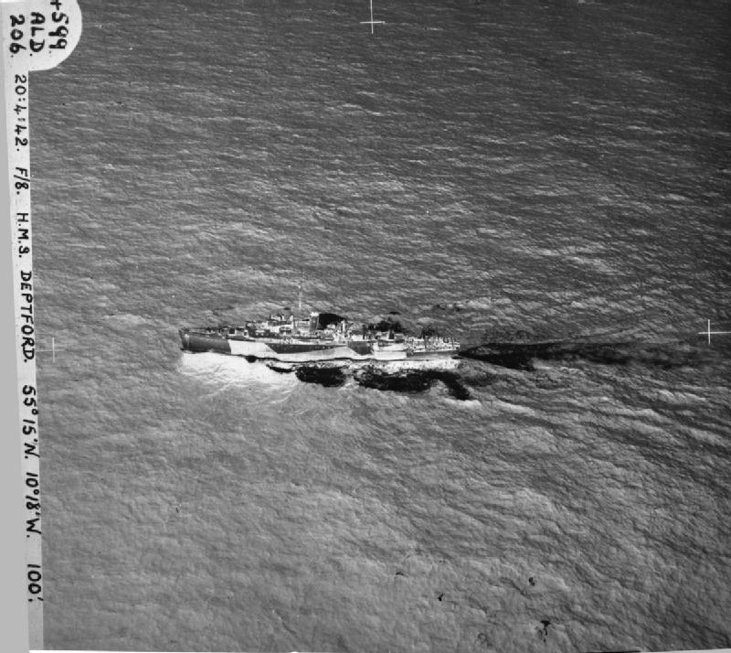 HMS Deptford Underway.